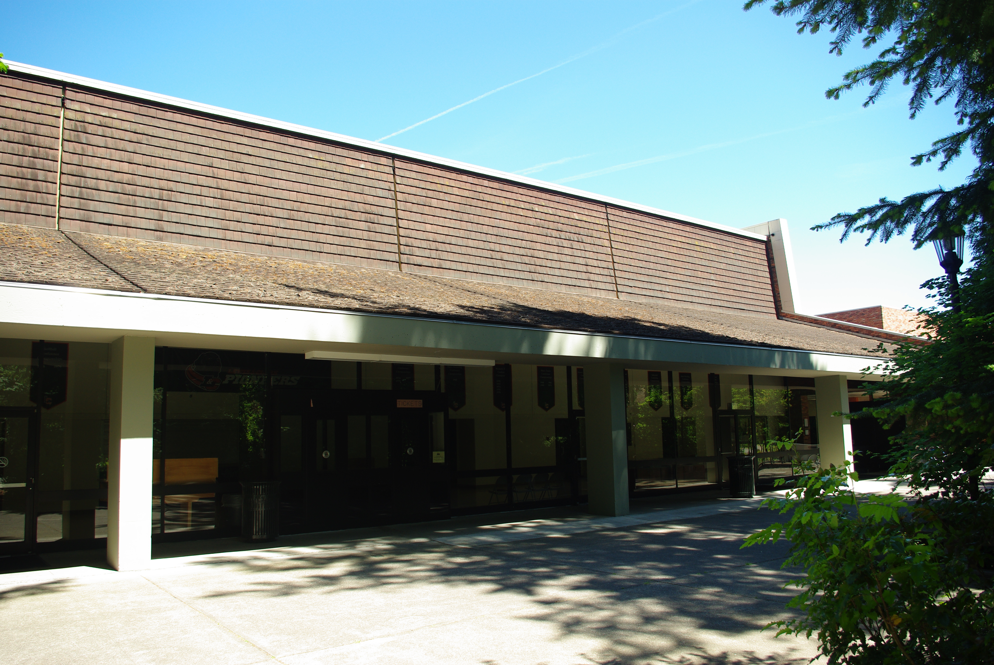 Basketball arena at Lewis & Clark College in Portland, Oregon, USA. Named after Robert B. Pamplin